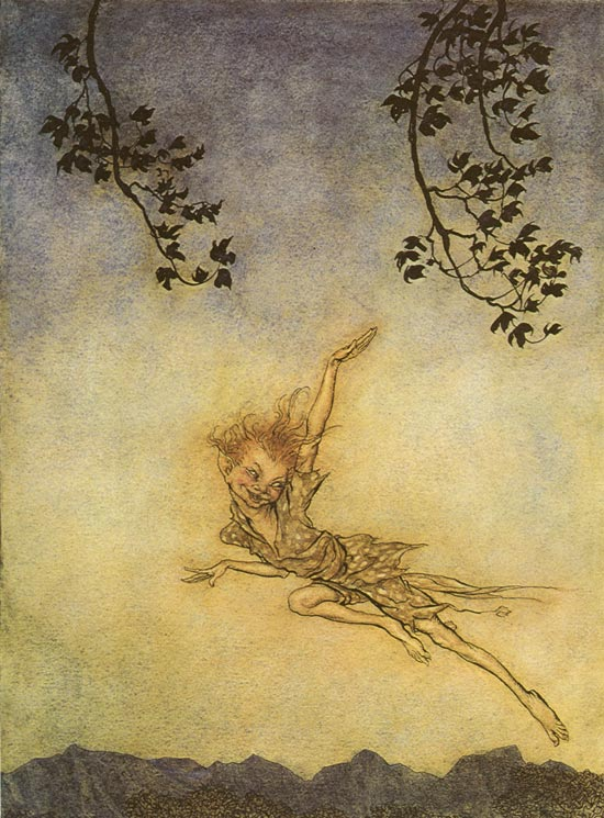 A painting of Puck, character of Shakespeare's Midsummer Night, by Arthur Rackham (1867 – 1939)